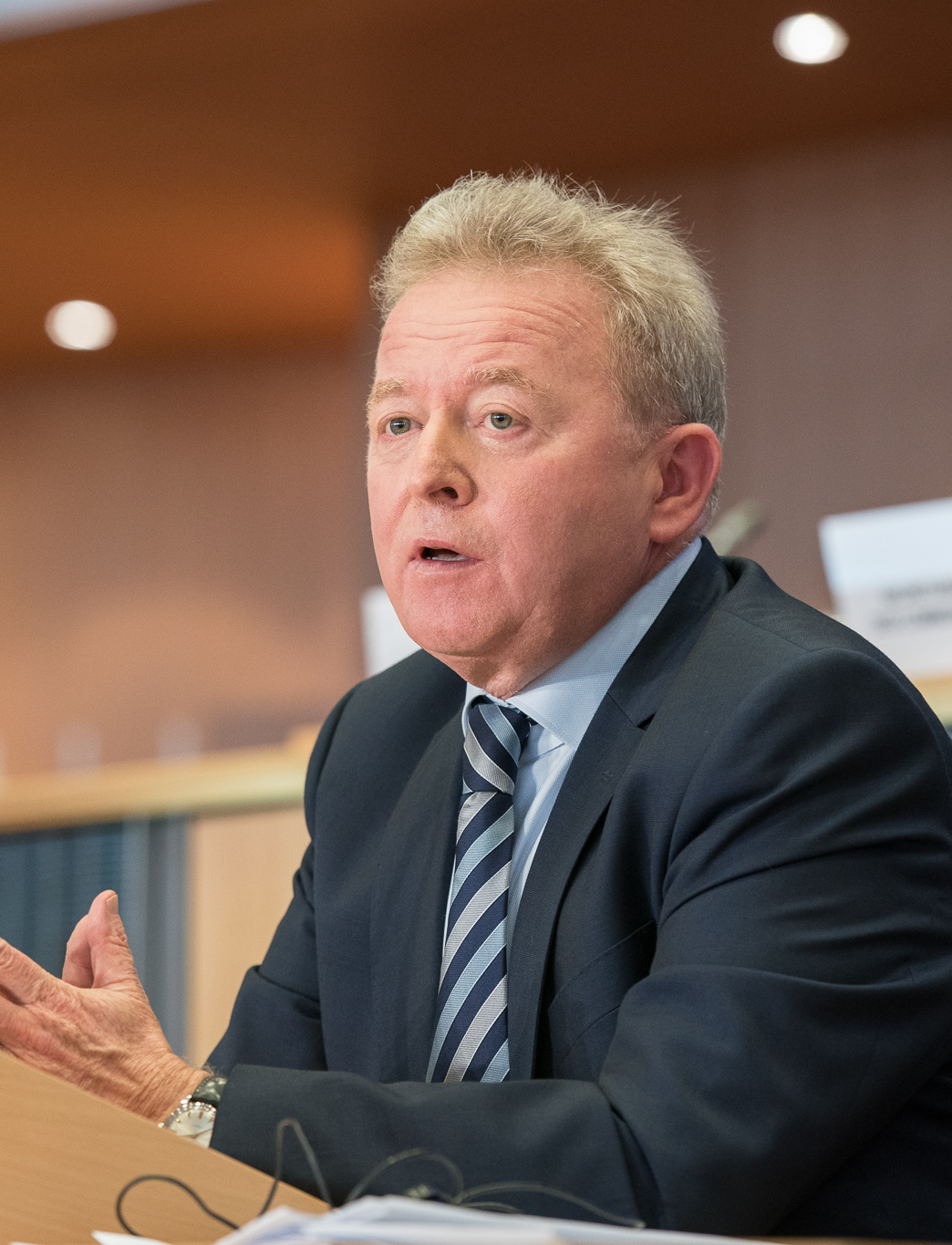 Before the European Parliament can vote the new European Commission led by Ursula von der Leyen into office, parliamentary committees will assess the suitability of commissioners-designate. On 23-26 May, more than 200,000,000 people in 28 EU countries went to the polls to elect members of the European Parliament, giving them a strong democratic mandate, including voting into office the new European Commission and examining the competencies and abilities of its commissioners-designate. Elected members of the European Parliament will also listen to their ideas and will assess their willingness to take concrete actions on the issues that Europeans care about. Each candidate commissioner is invited for a live-streamed, three-hour hearing in front of the committee or committees responsible for their proposed portfolio. The hearings will take place between Monday 30 September and Tuesday 8 October. This photo is free to use under Creative Commons license CC-BY-4.0 and must be credited: "CC-BY-4.0: © European Union 2019 – Source: EP". No model release form if applicable. For bigger HR files please contact: webcom-flickr(AT)